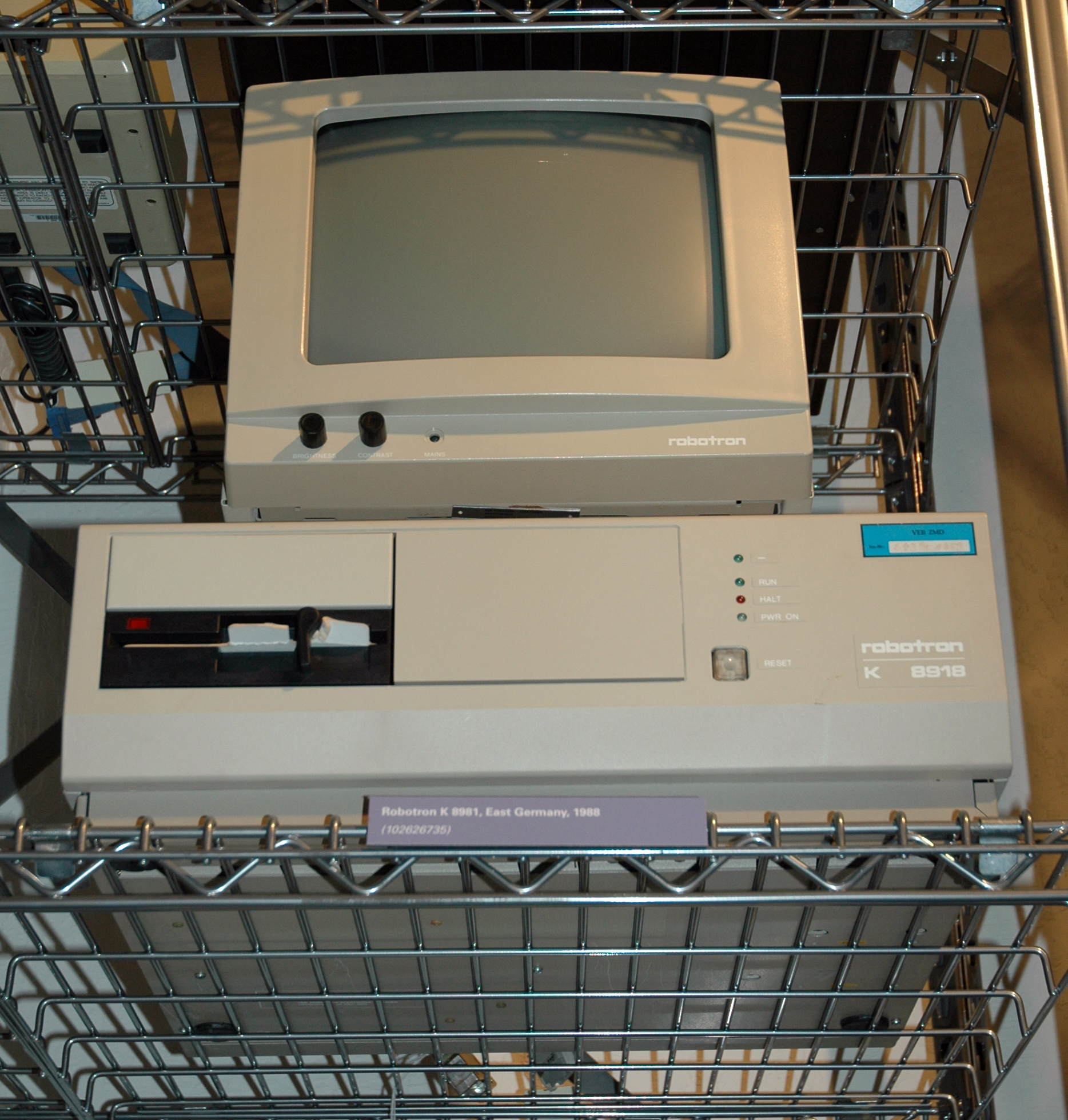 The Robotron K 8918, a computer terminal which was manufactured in the GDR (East Germany) by the VEB Robotron-Meßelektronik Dresden. This one stands in the American Computer History Museum.Robotron-K-8961